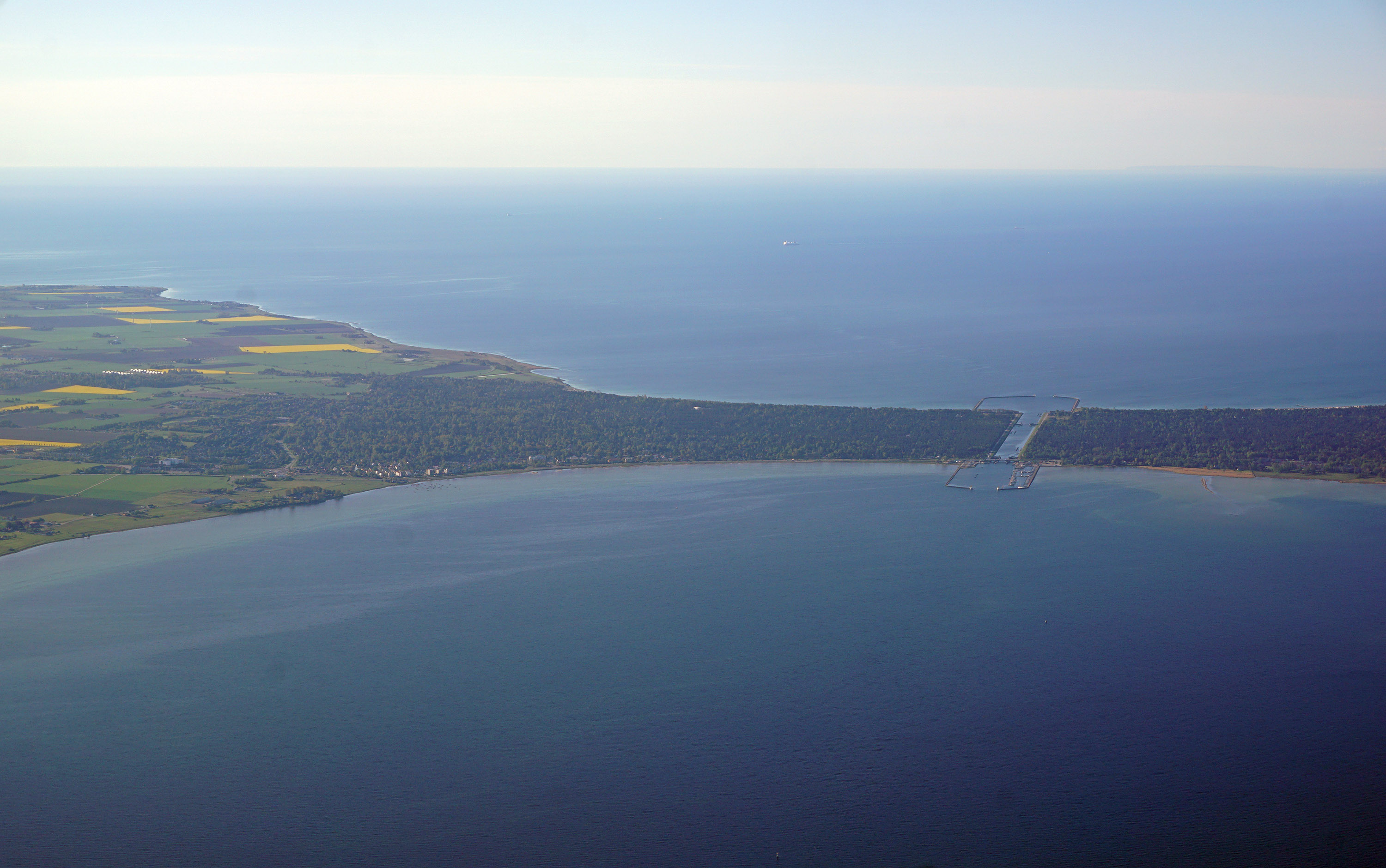 Aerial photograph of Höllviken, Sweden.